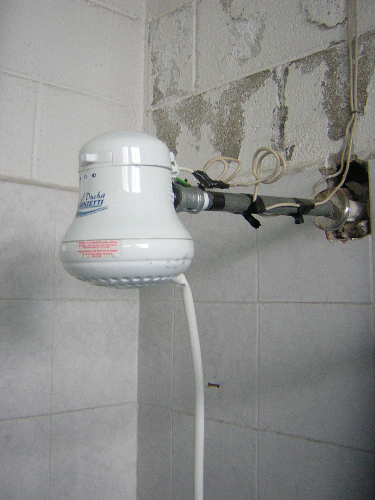 Electrical shower 5500w 110v at, Guatemala with very danger way of wiring. 1) As bathroom is wet room, all connections should be placed inside hermetically closed non-conductive box. 2) To avoid overheating, all electrical contacts should be made in terminals, suitable for at least 50A current. 3) PE (yellow-green wire) should be connected into PE busbar in distribution board, but not to pipe. 4) As bathroom is wet room, all wires should be hidden inside hermetically closed non-conductive pipe or duct